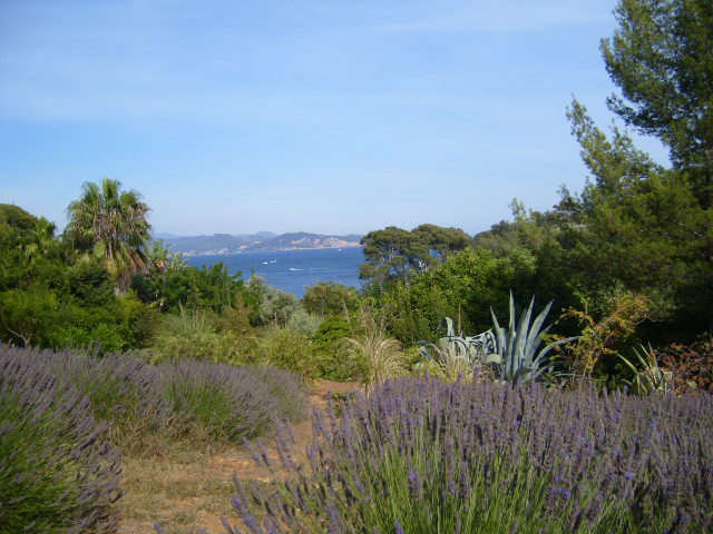 Landscape of parc du Mugel, La Ciotat, France